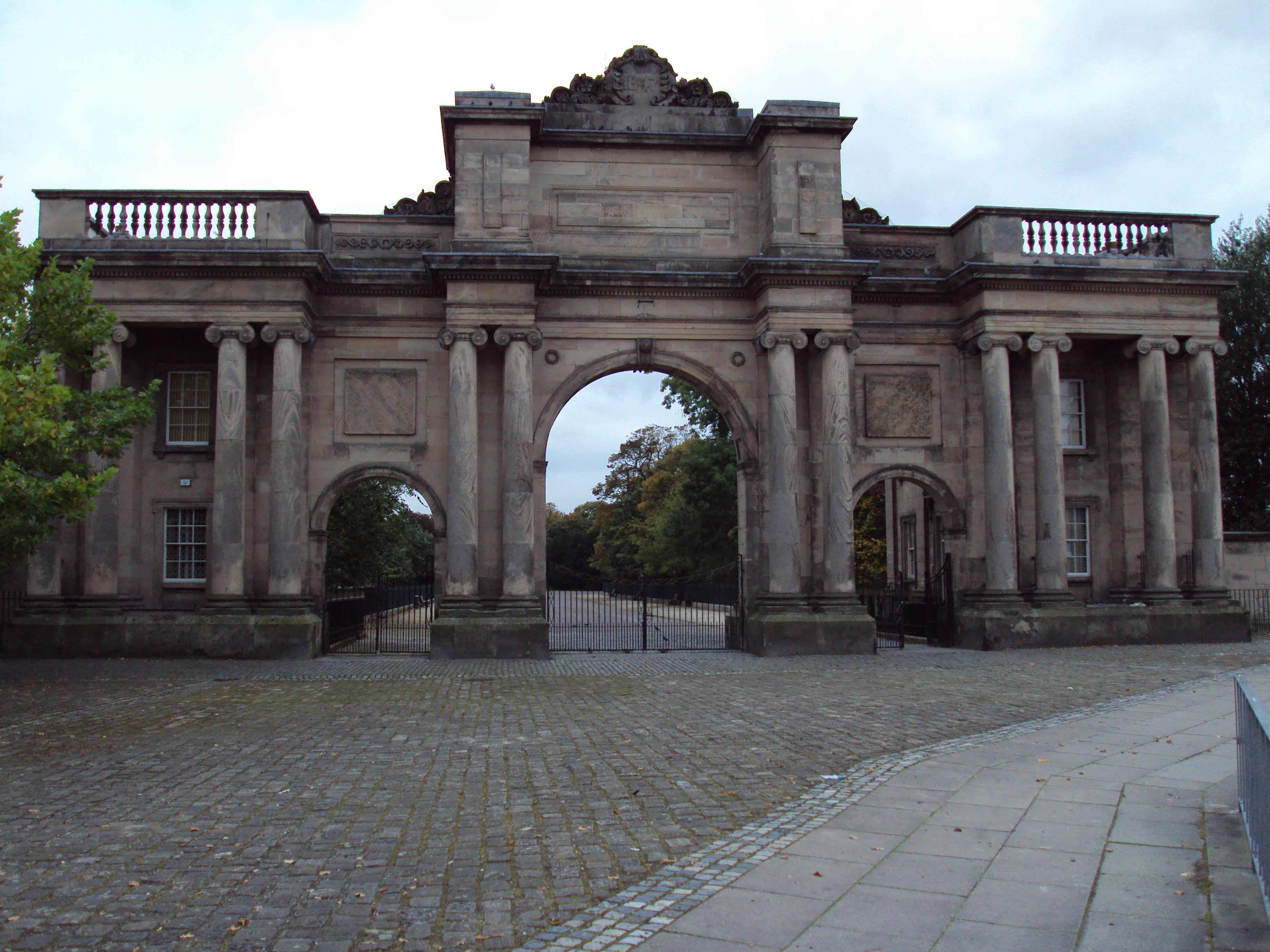 The Grand Entrance on the corner of Park Road East and Park Road North, Birkenhead, Merseyside, England.